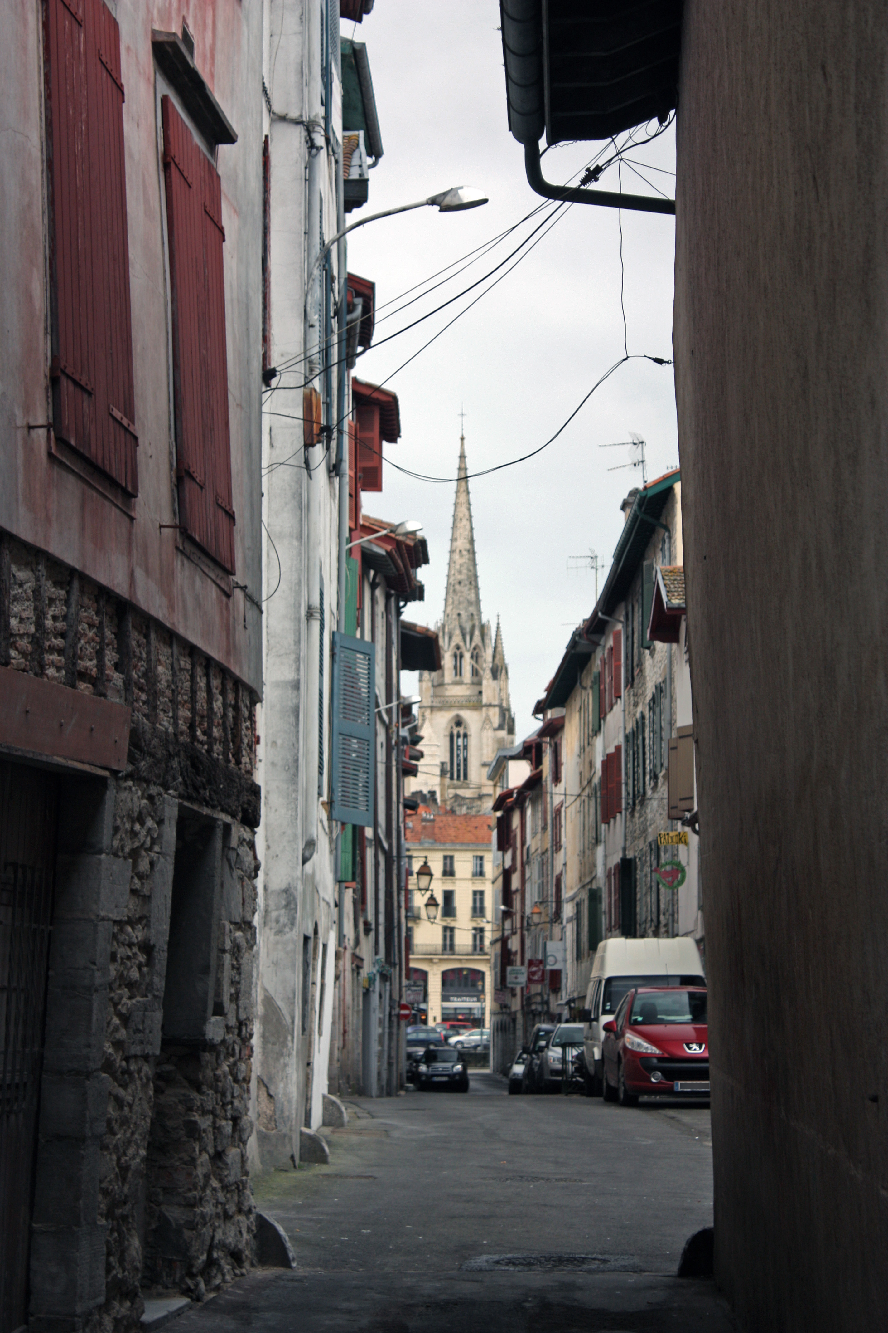 Street of the coopers, one of the oldest streets of Petit-Bayonne.